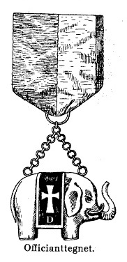 The sign worn my members of the Ordenskapitel, the Danish Chapter of Orders of Knighthood.